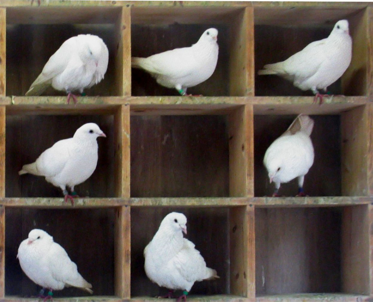 Pigeons in pigeon holes. The pigeons are on perches because I keep them with my dad and you can get nest boxes as well and these pigeon bowls